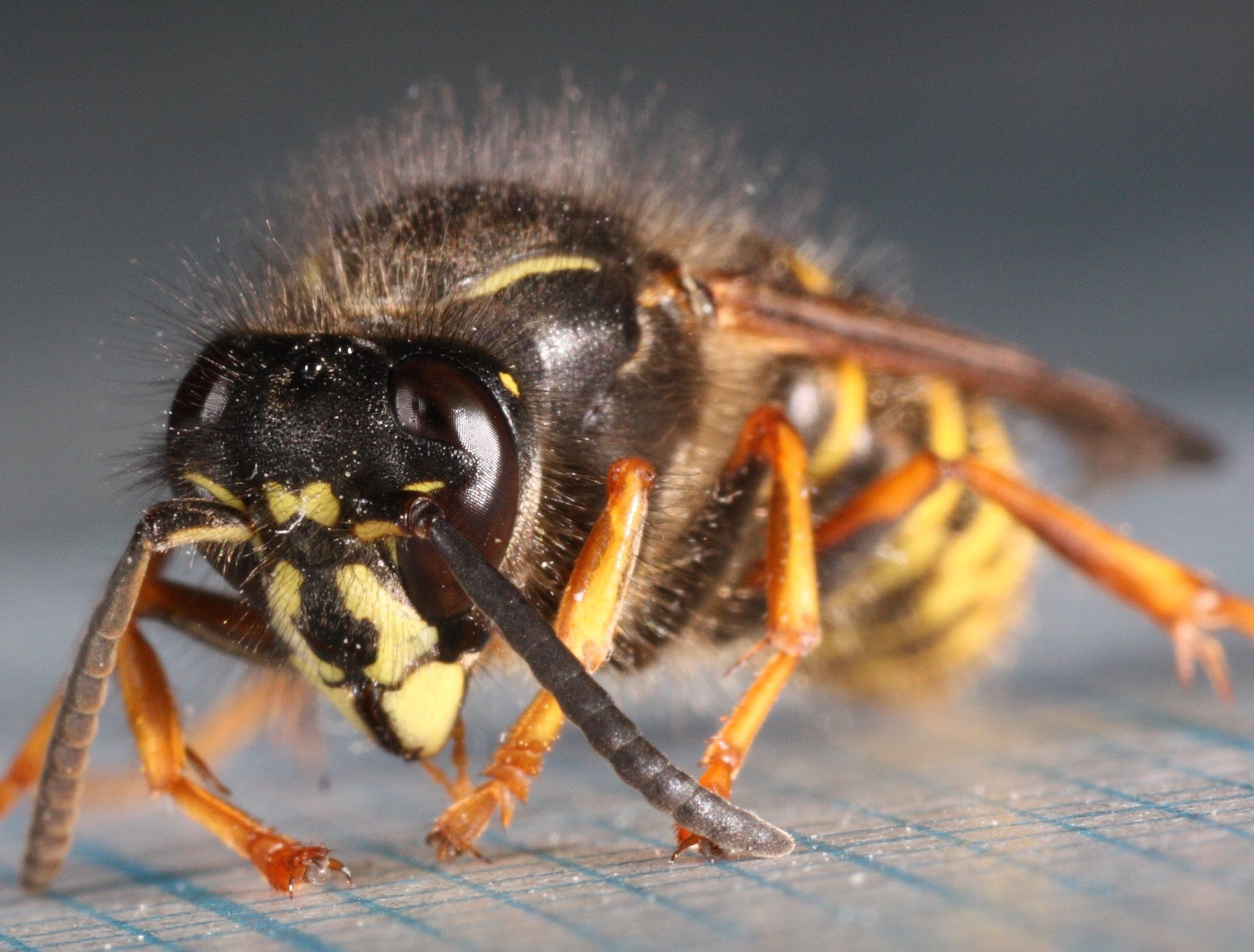 Saxon wasp Dolichovespula saxonica worker.